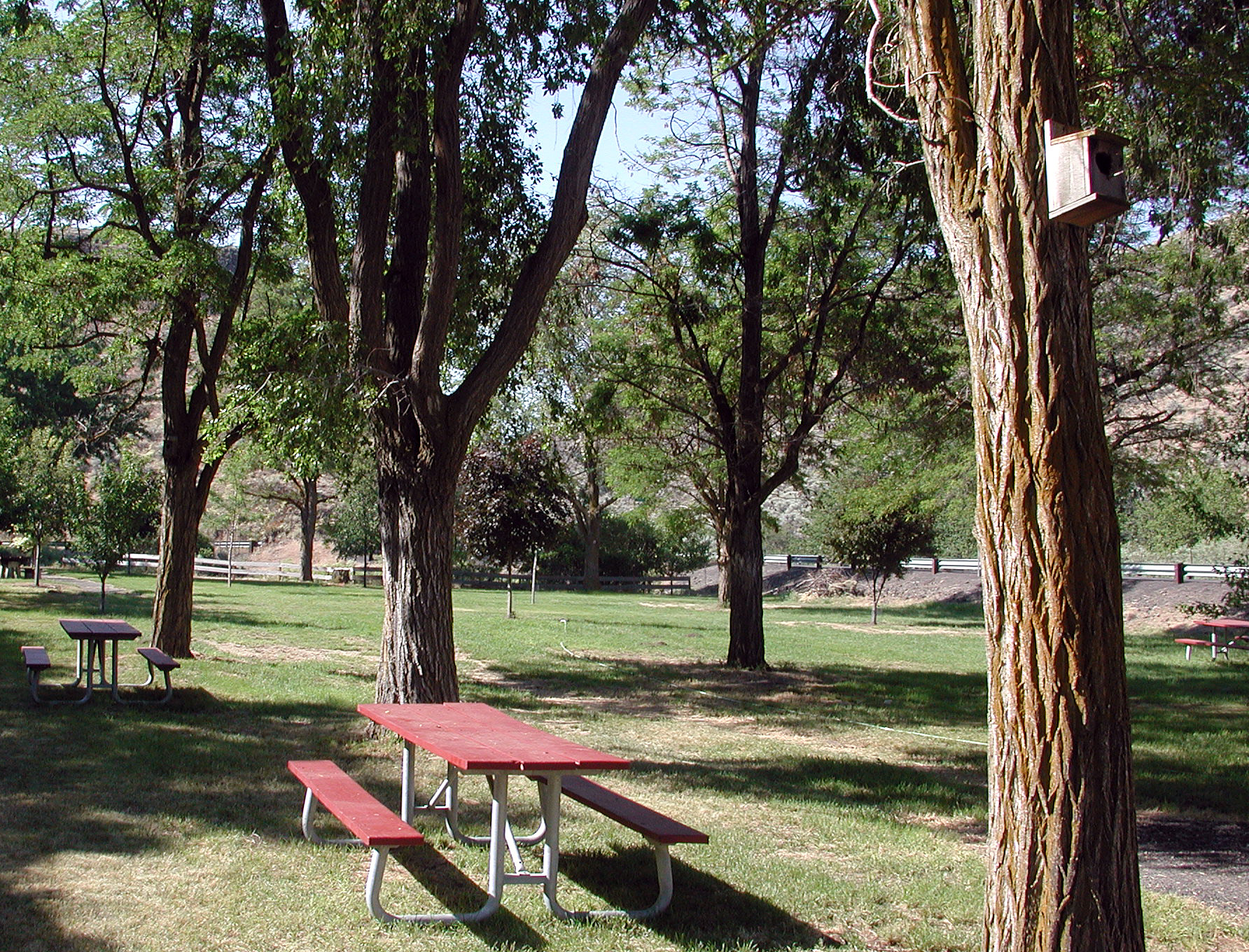 Dyer State Wayside along Oregon Route 10 between Condon and Fossil